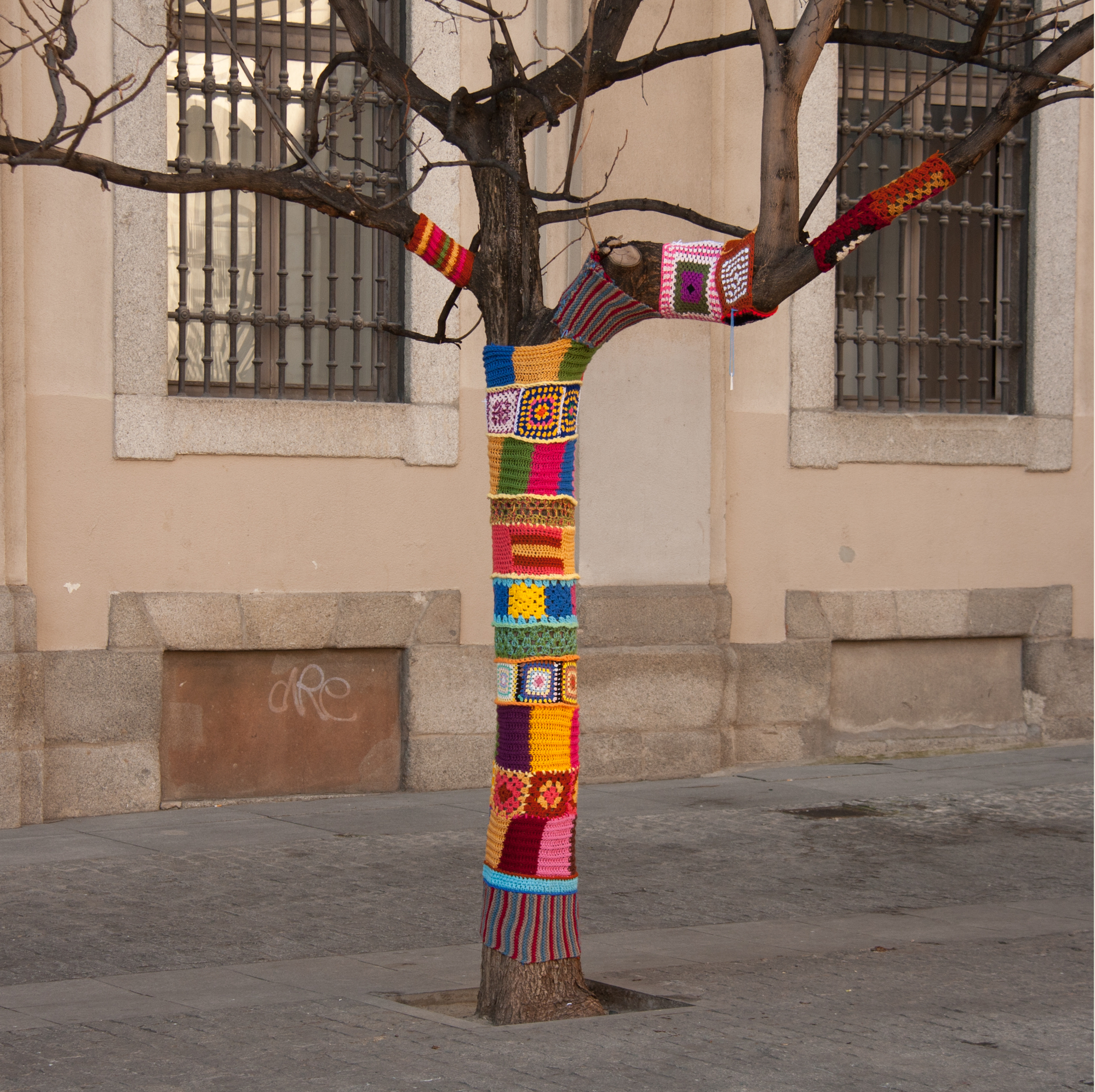 Arboles en la calle santa Isabel, junto al Museo Reina Sofia